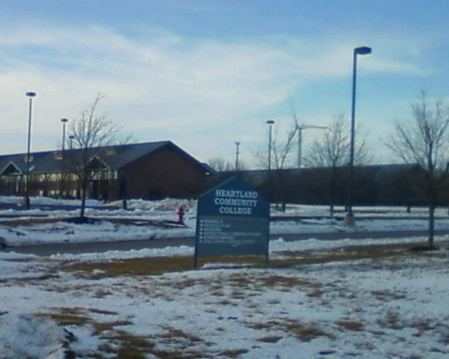 Heartland Community College in Normal, IL. Picture taken 7 February 2015 at approximately 4:15 PM.